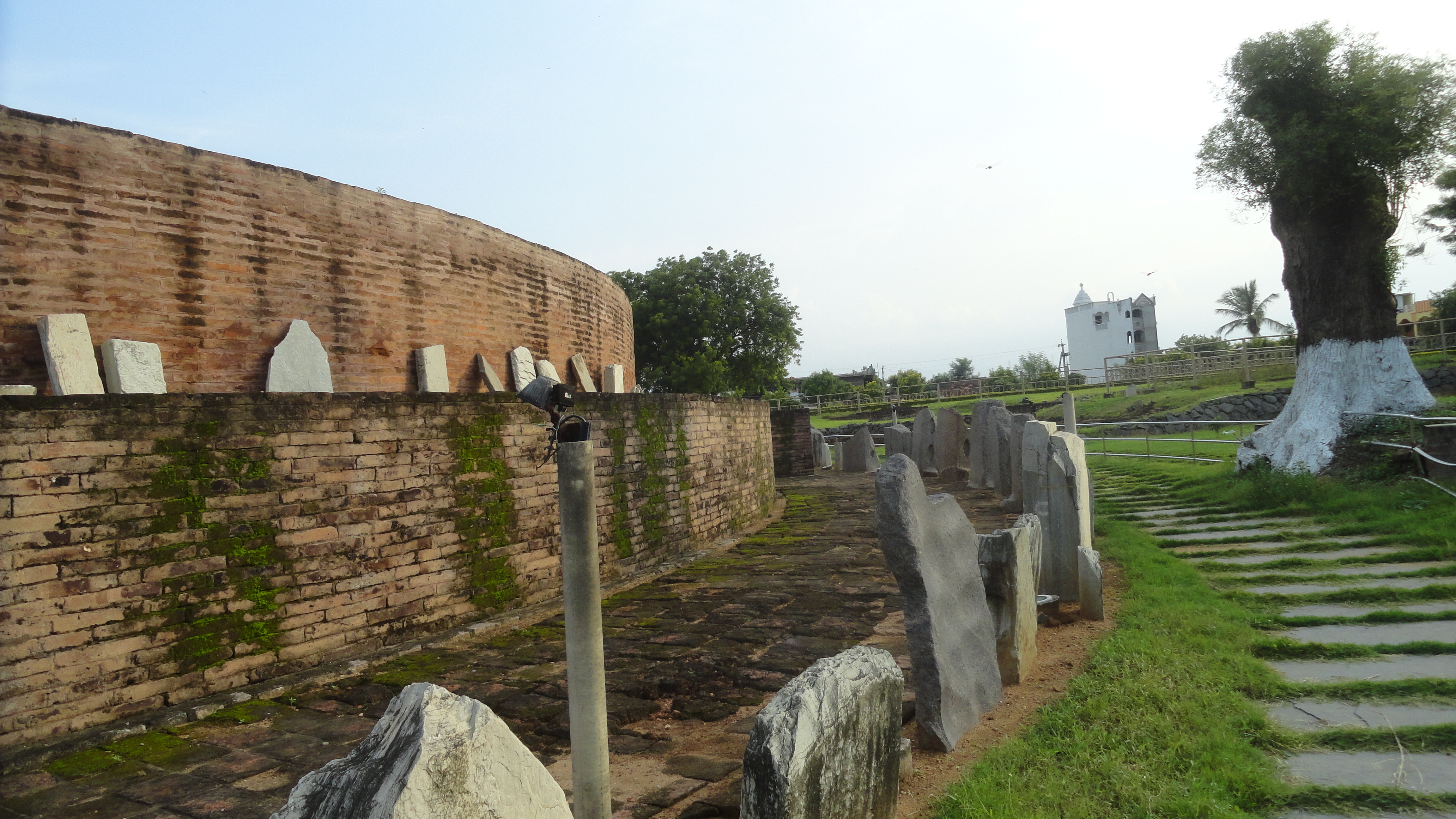 Amaravati stupa. at Amaravati. close view